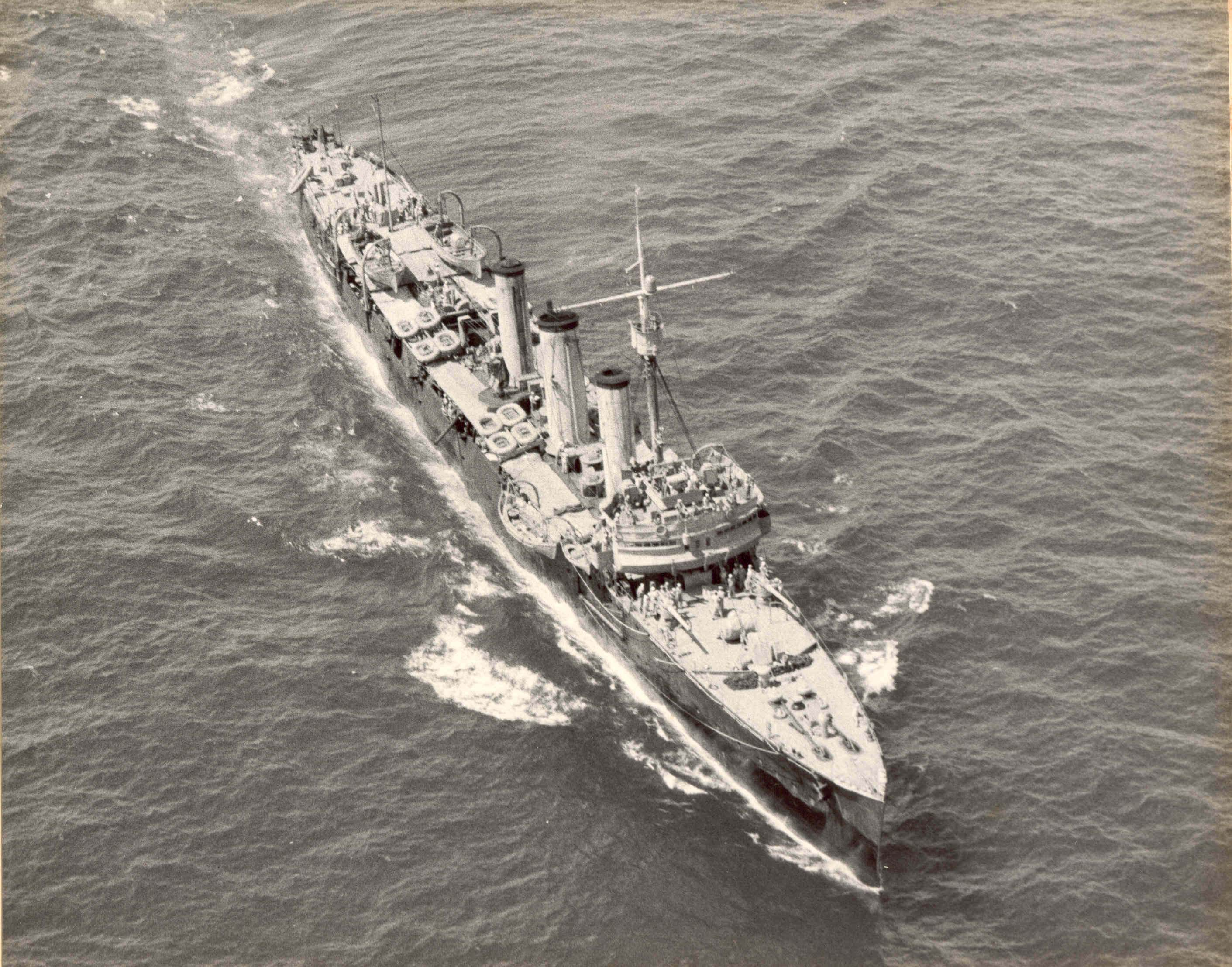 Brazilian cruiser Bahia at an unknown date, but after a mid-1920s modernization (as indicated by the three funnels).